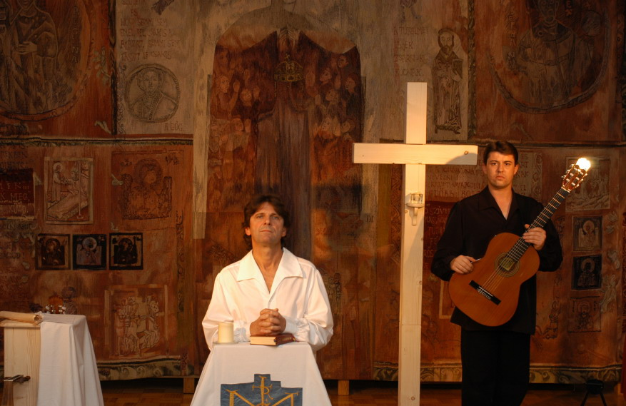 László Pelsőczy and József Csobolya in Sorsidéző - Ezeréves magyar Ámen